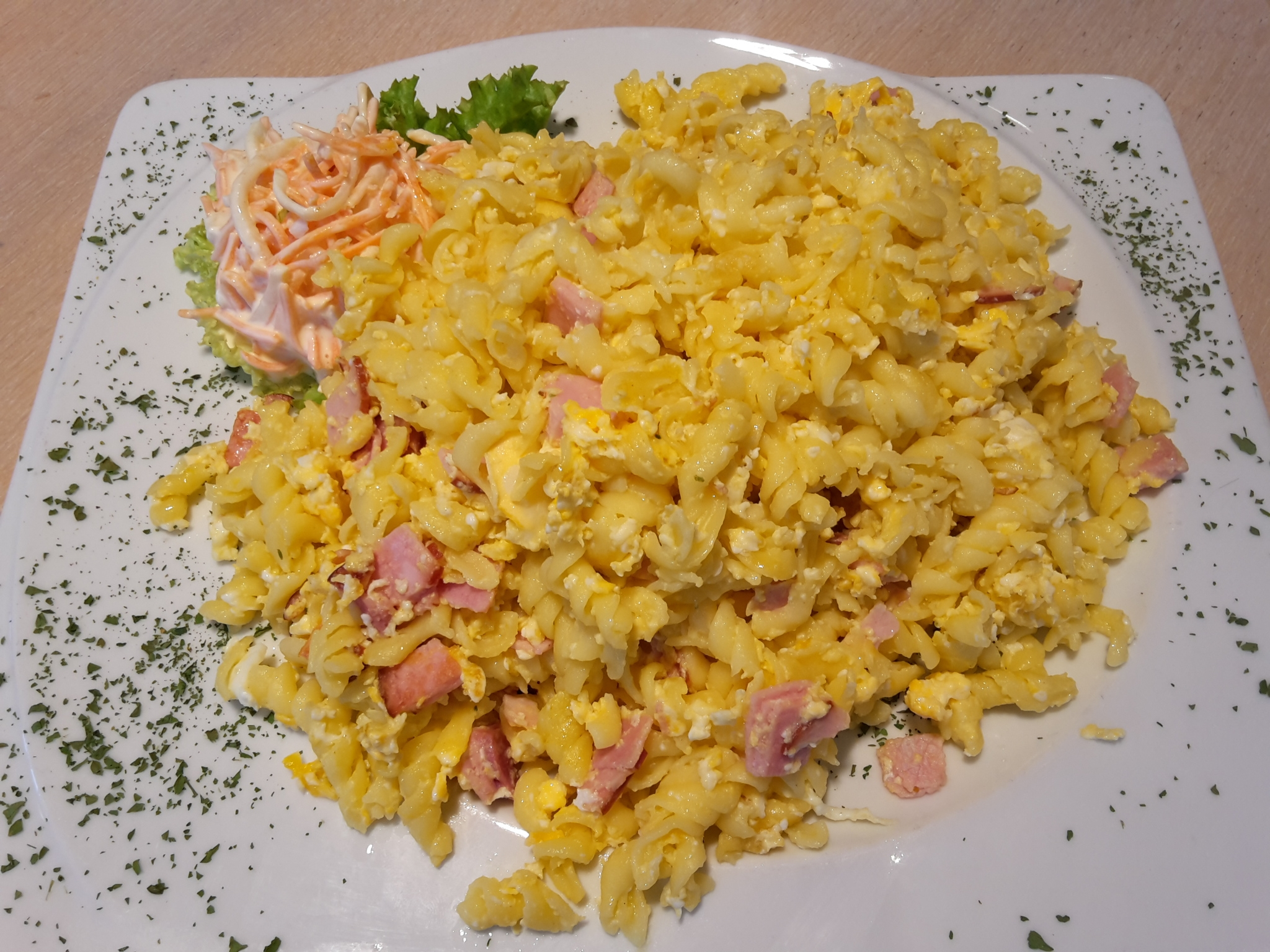 Schinkennudeln: A dish from southern Germany. Mixing ham, noodles and eggs.